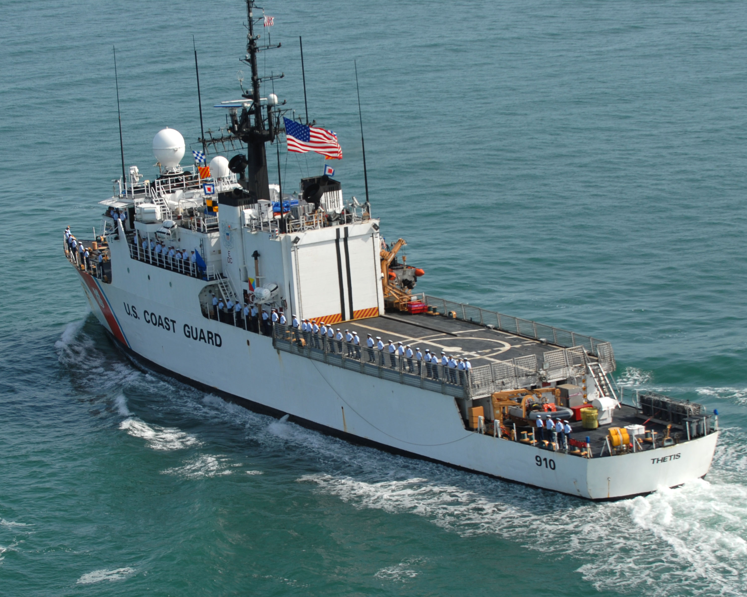 The U.S. Coast Guard Cutter Thetis (WMEC-910) along with ships from other countries participating in Exercise Unitas Gold, take part in a parade of ships just off the coast of Jacksonville, Florida. The Jacksonville area hosted maritime forces from Argentina, Brazil, Canada, Chile, Colombia, Ecuador, Germany, Mexico, Peru, the United States and Uruguay for the 50th iteration of the annual multinational maritime exercise.